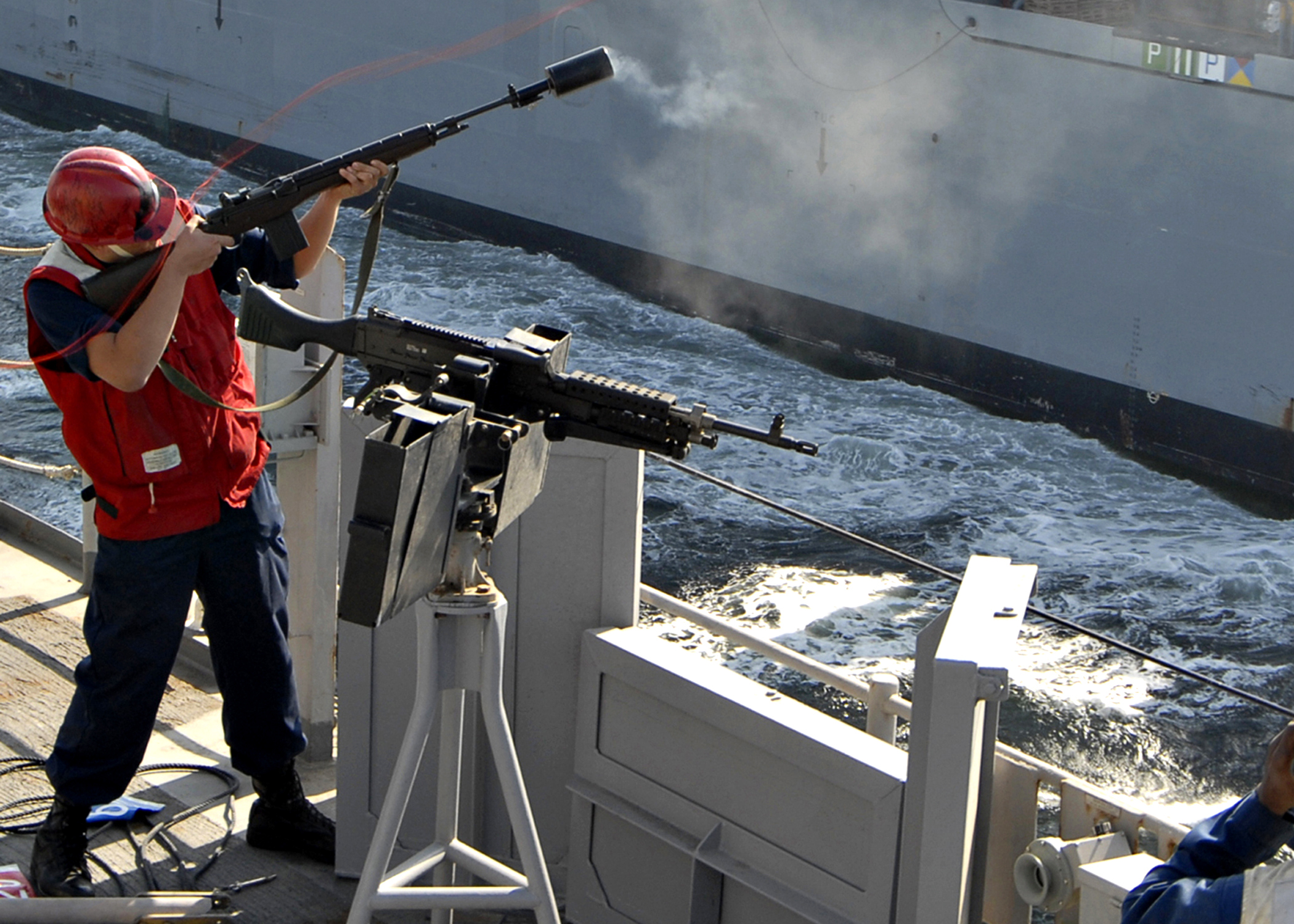 PERSIAN GULF (Jan. 7, 2009) Gunner's Mate Seaman James Clarke fires a shot line to the Military Sealift Command dry cargo/ammunition ship USNS Lewis and Clark (T-AKE 1) during a replenishment at sea aboard the amphibious dock landing ship USS Carter Hall (LSD 50). Carter Hall is deployed as part of the Iwo Jima Expeditionary Strike Group supporting maritime security operations in the U.S. U.S. 5th Fleet area of responsibility. (U.S. Navy photo by Mass Communication Specialist 2nd Class Katrina Parker/Released)